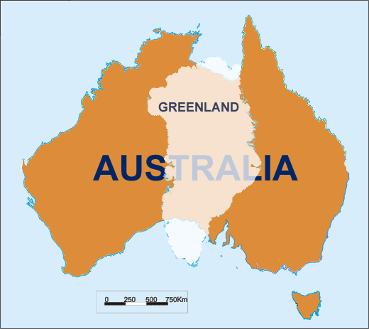 Scale comparison of Greenland (the largest island) and Australia (the smallest continent) using the Mercator projection.